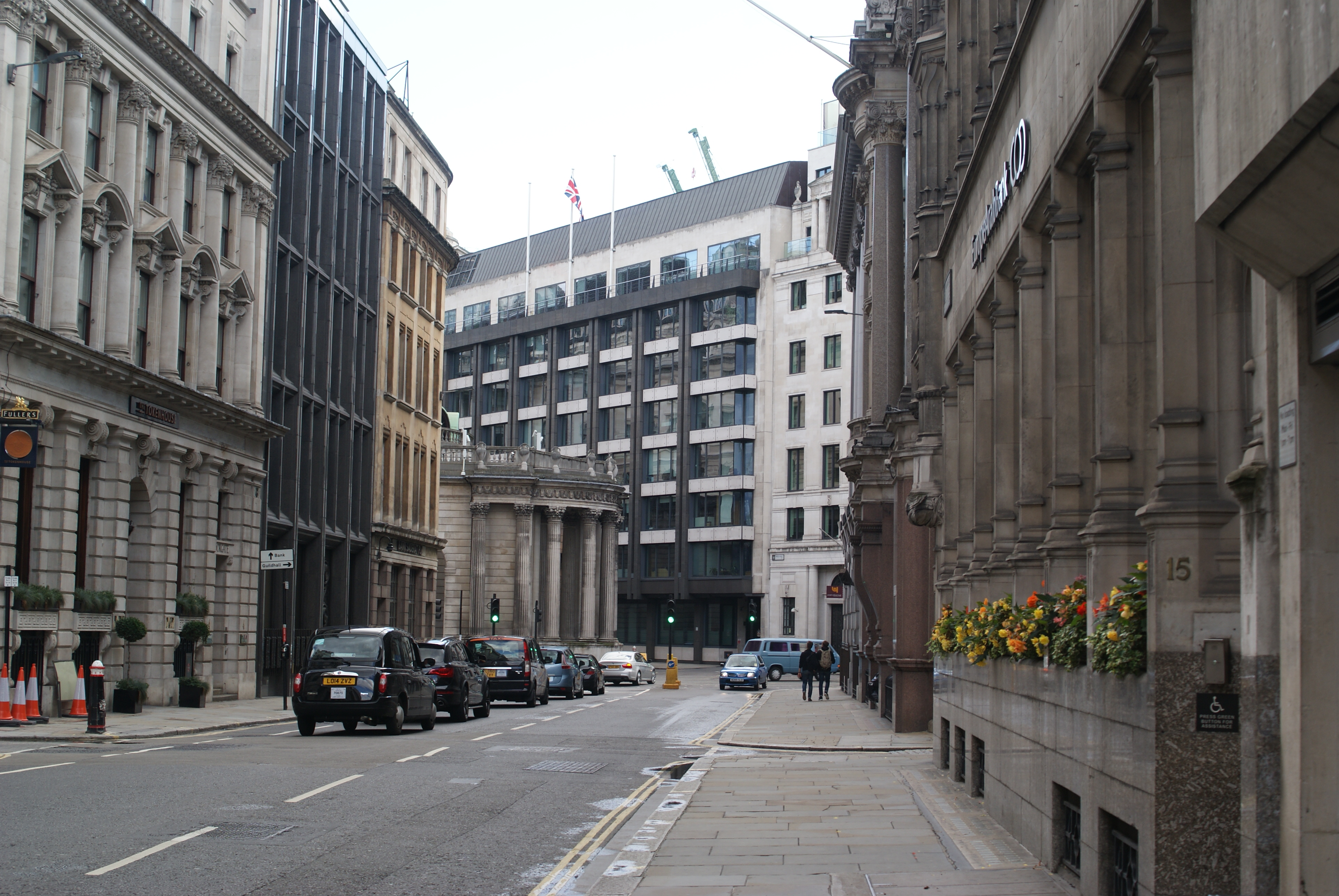 Moorgate, London, with a view towards the Bank of England.